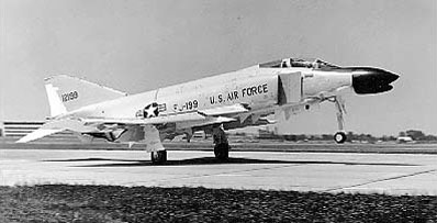 McDonnell Douglas F-4C-15-MC